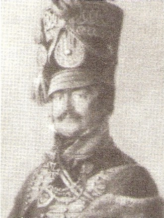 This picture shows Friedrich Count Waldbott von Bassenheim (1776-1830) on a contemporary picture